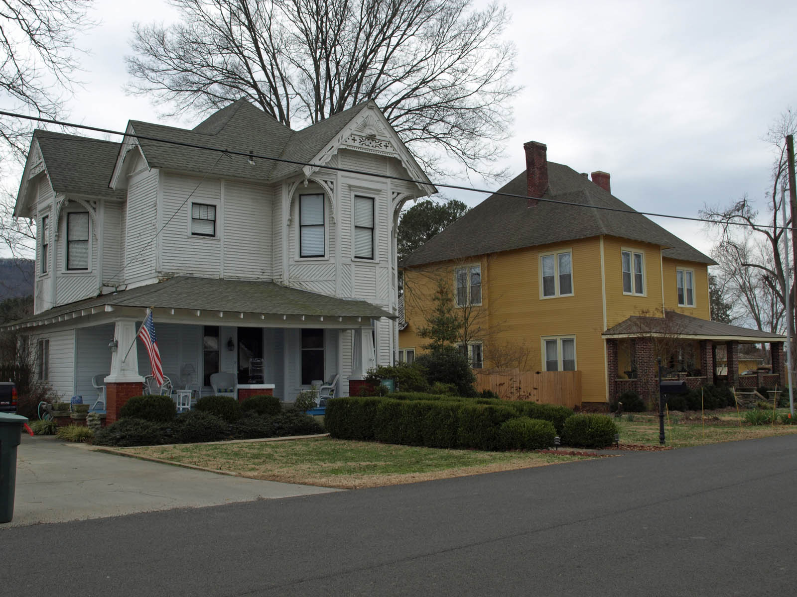 The H.A. Smith House (built c.1895) and William A. Walker Sr. House (built c.1900) on Section Line Street in Gurley, Alabama, part of the Gurley Historic District